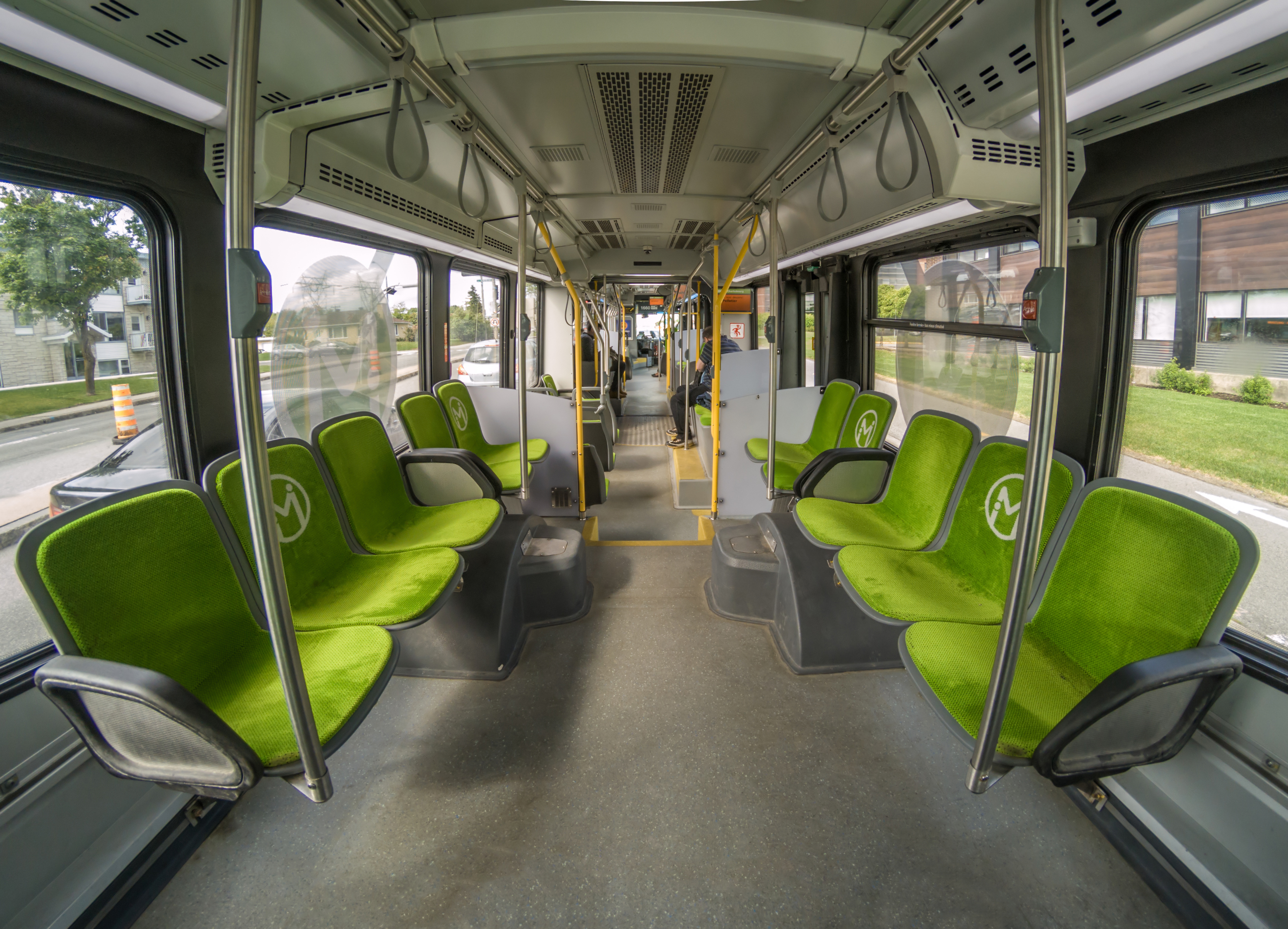 Réseau de transport de la Capitale